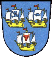 Coat of arms of the former district Eiderstedt in Schleswig-Holstein, Germany.